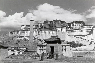 The Potala with the settlement of Sho at its base with the Sho doring or inscription pillar and small building containing another inscription pillar in the foreground